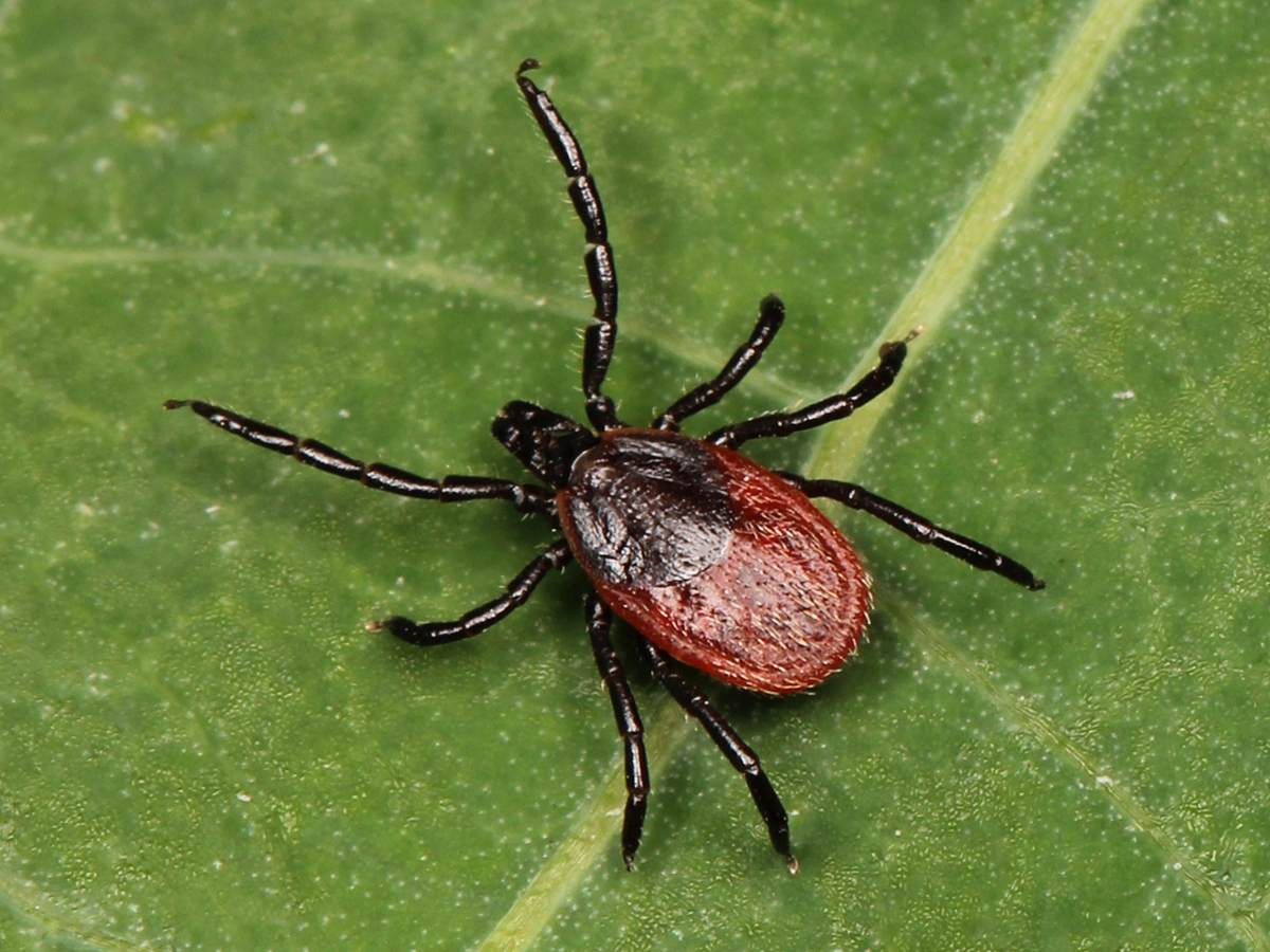 Western black-legged tick (Ixodes pacificus)